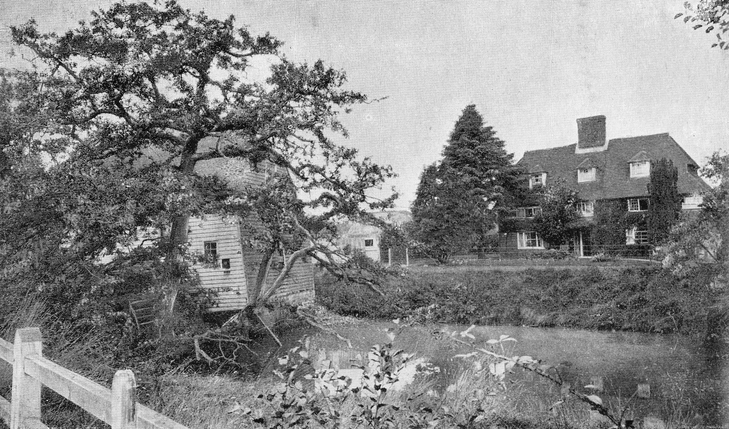 Marden watermill. Postcard datestamped 24 July 1904.